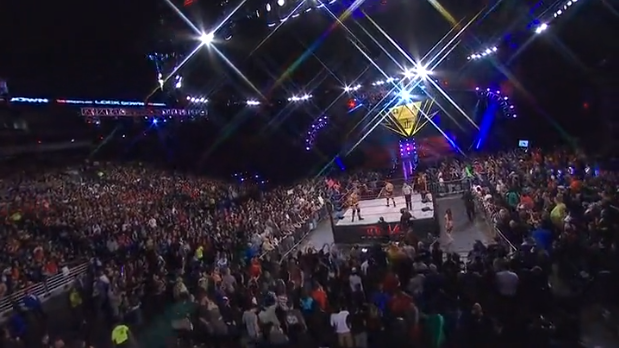 TNA Lockdown 2013 Arena.